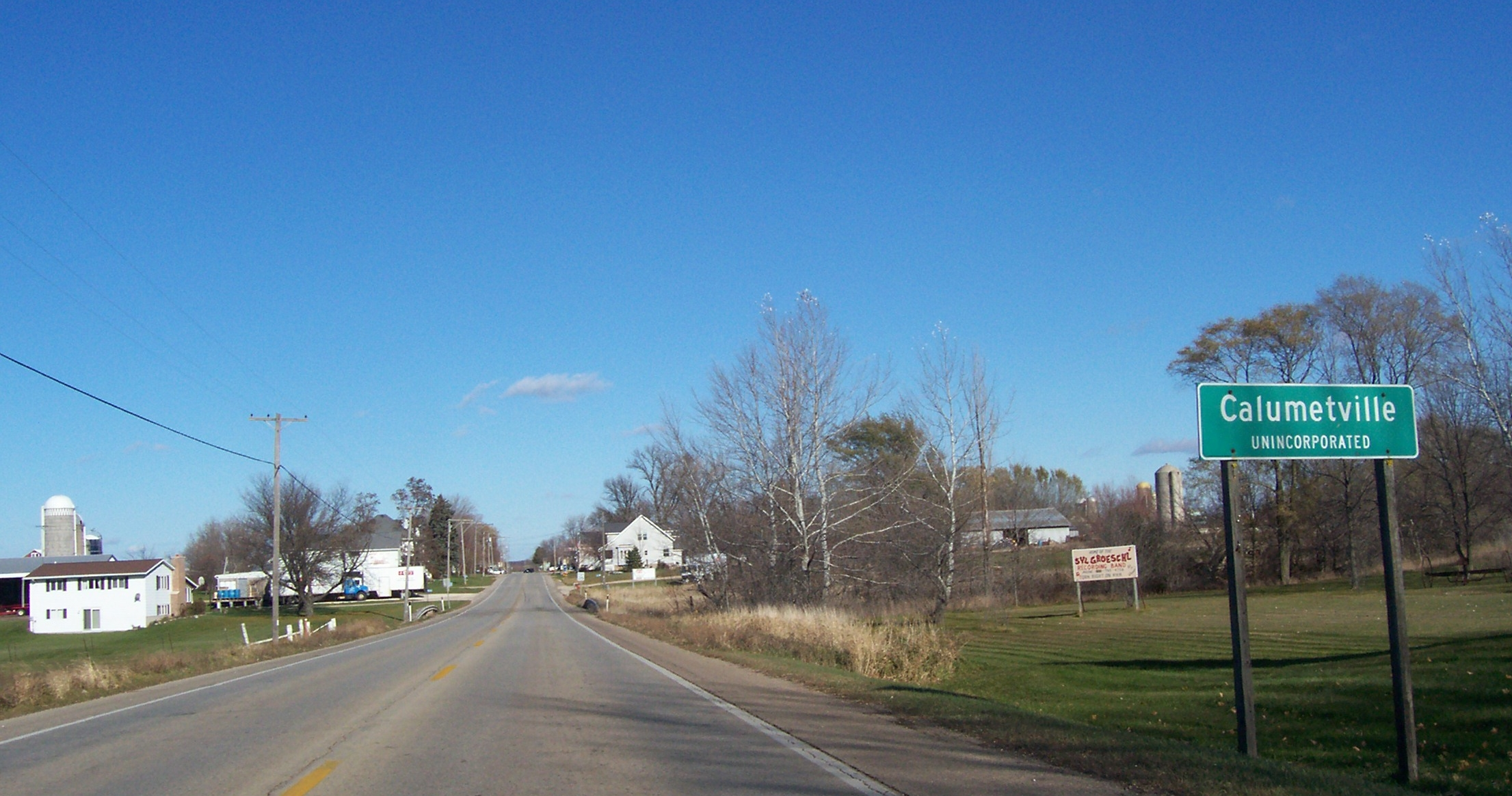 Looking north at the sign for Calumetville, Wisconsin, USA while traveling on U.S. Route 151.